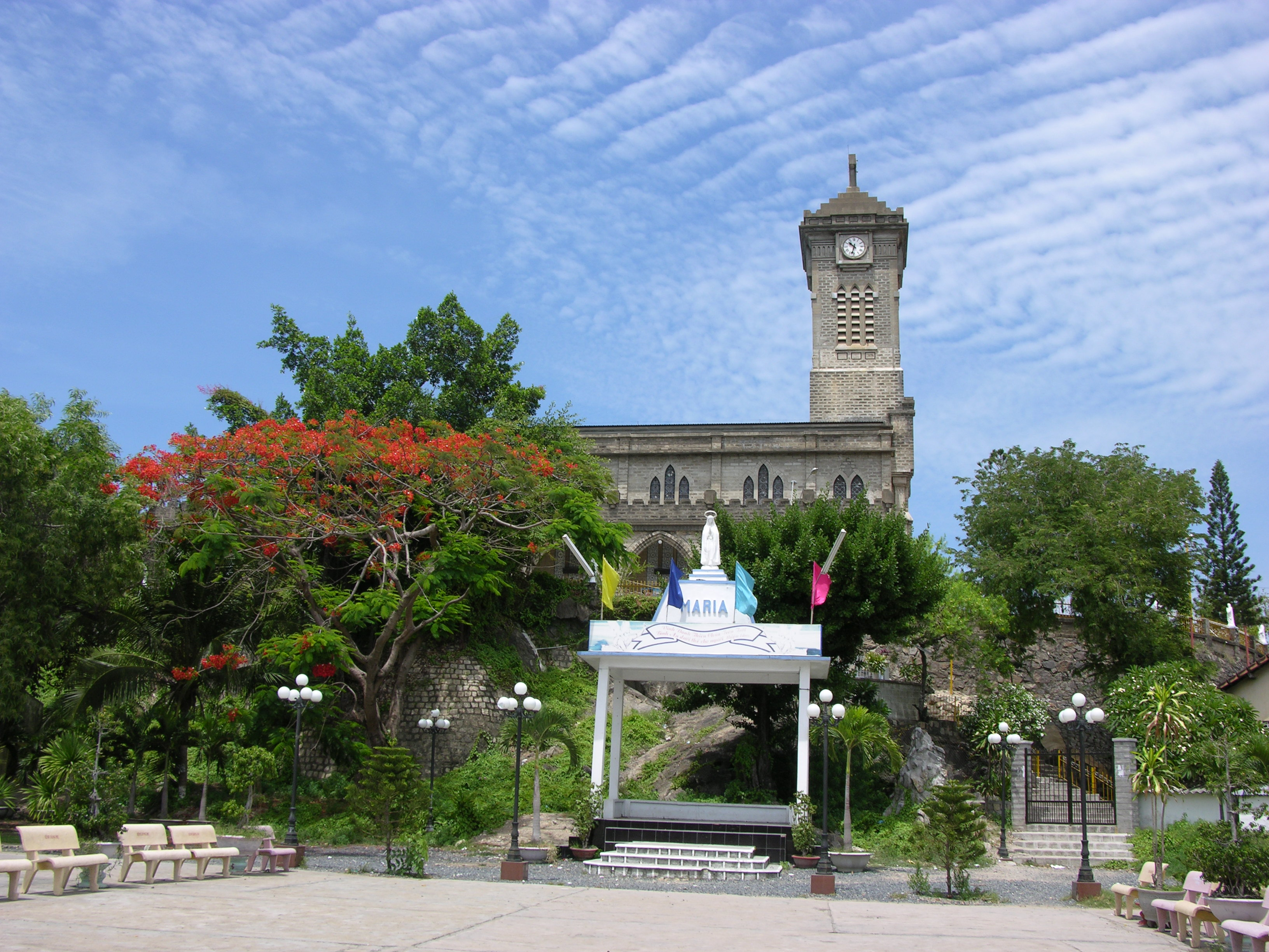 Christ the King Cathedral in Nha Trang, Vietnam